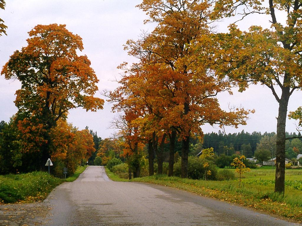 Road P23 near GaujienaLatviešu: Autoceļš P23 pie Gaujienas